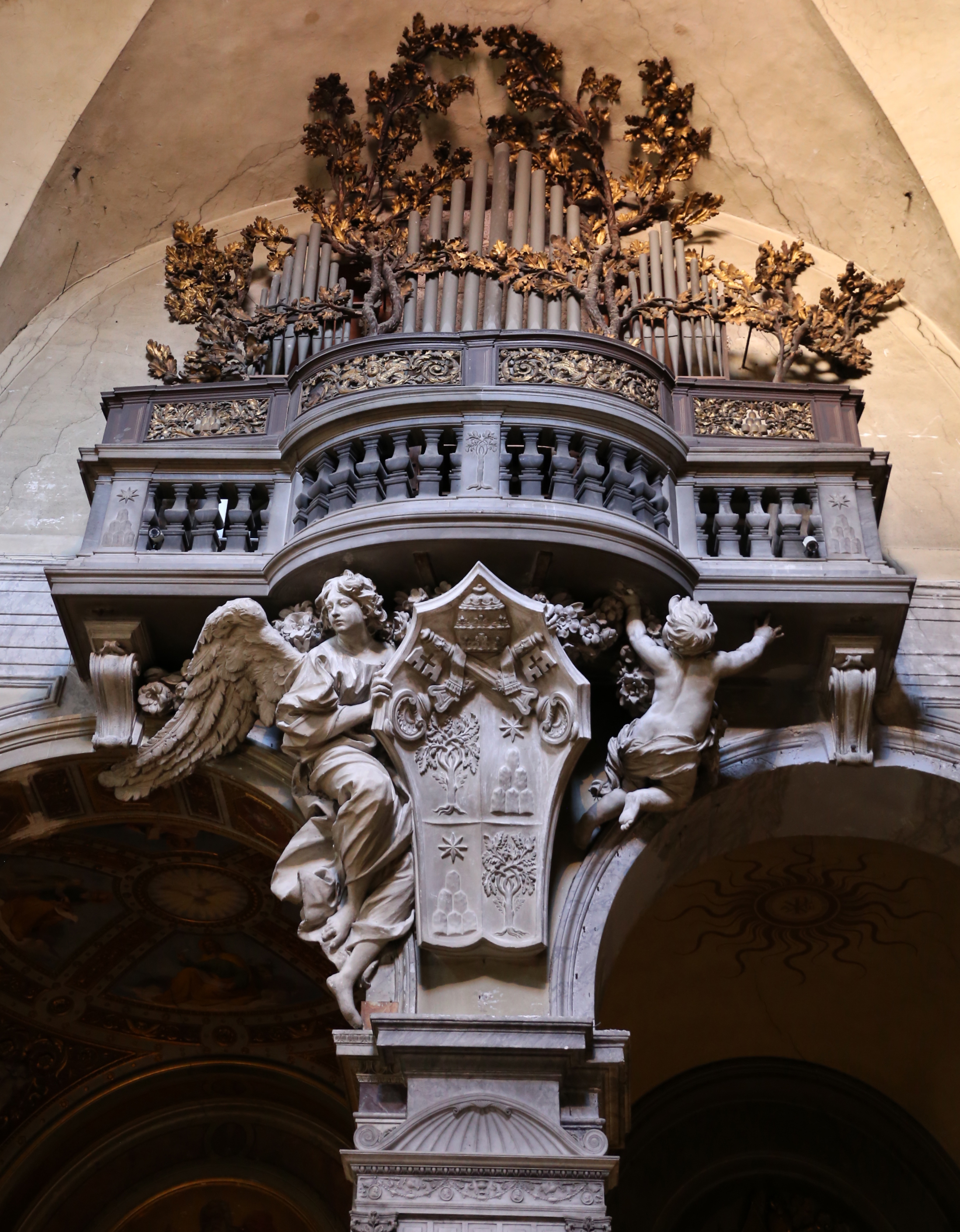 Santa Maria del Popolo (Rome) - Transept